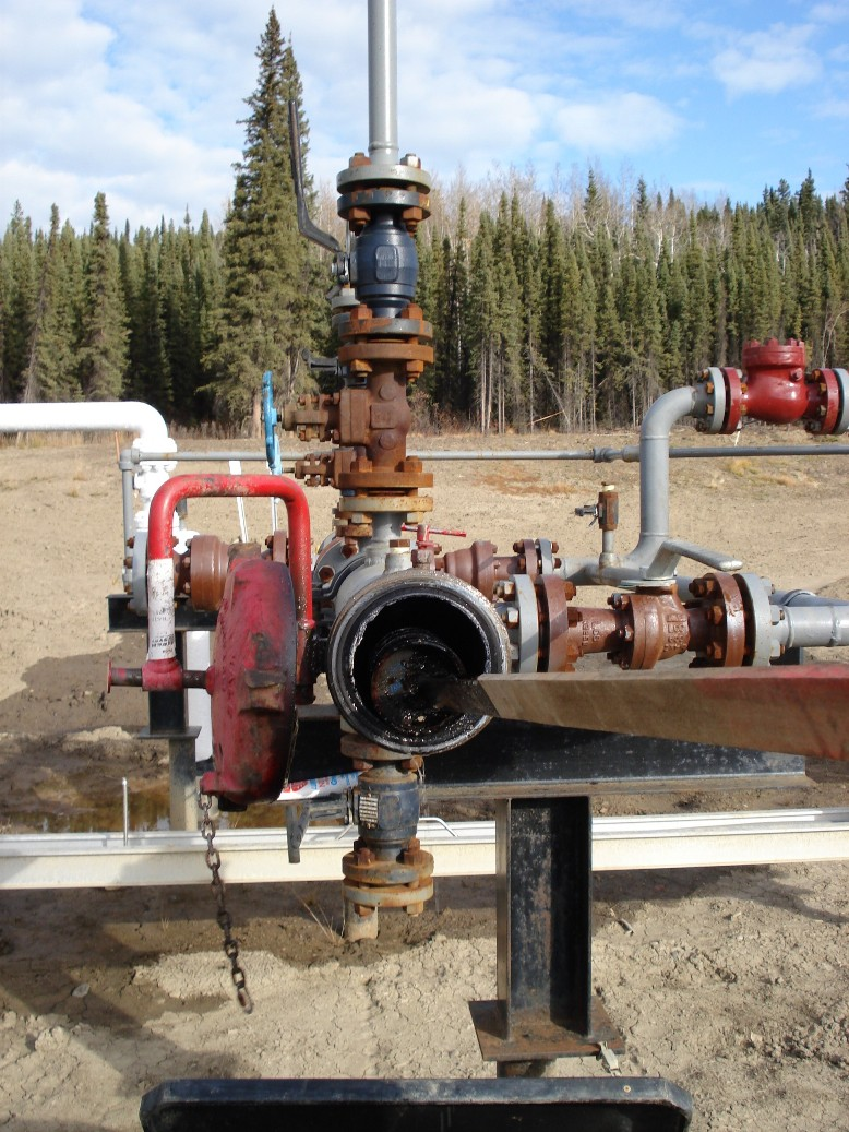 Inserting a pig into a natural gas pipeline in northern British Columbia, Canada.